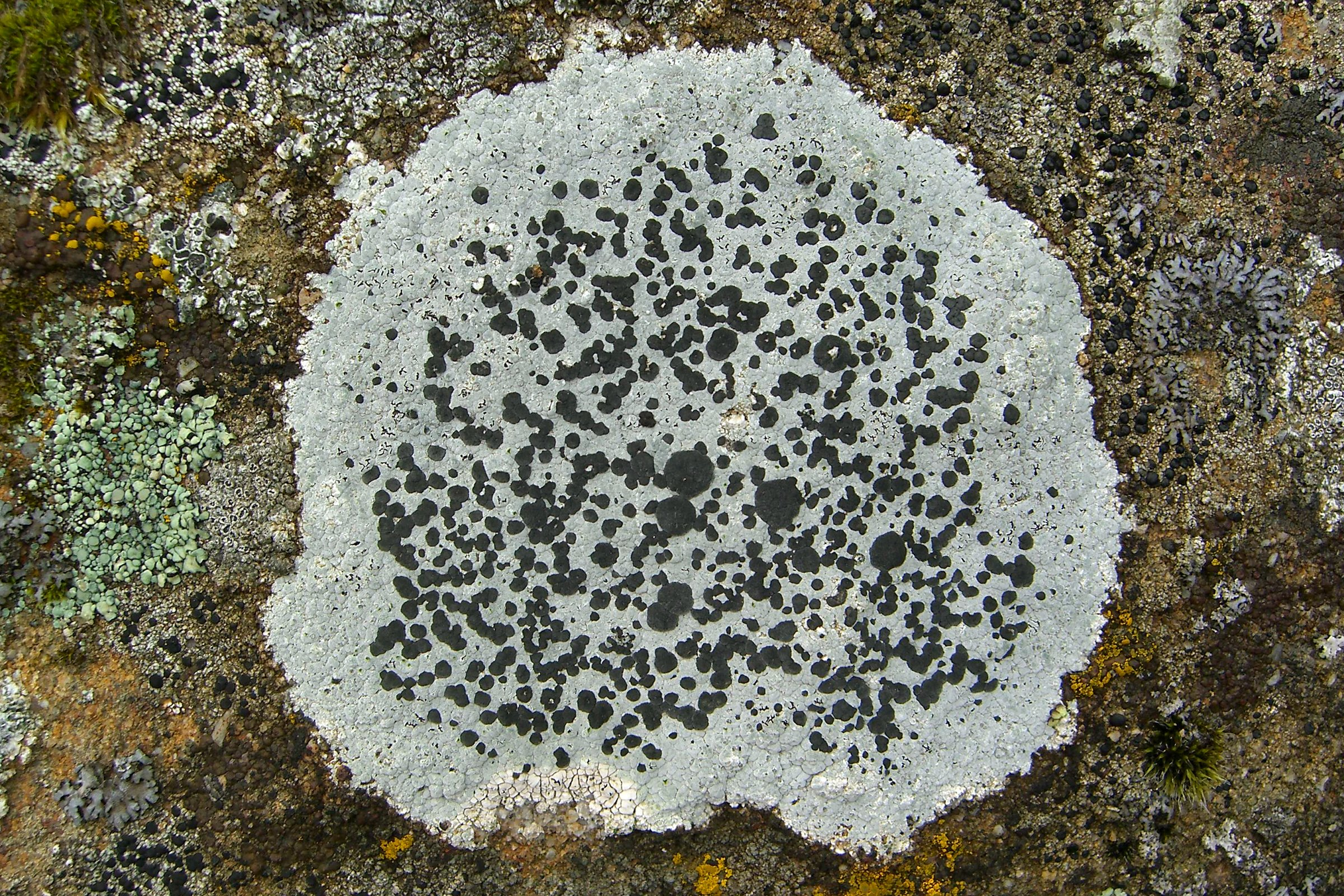 Scientific Name: Lecidea tessellata Florke Common Name: Tile Lichen Certainty: positive (notes) Location: Southern California; Santa Barbara Mts; Pine Mt Date: 20070214 The poor contrast in this photo fails to show the tessellation, but it does show the funky "graphidioid" pycnidia admirably (look at large version).